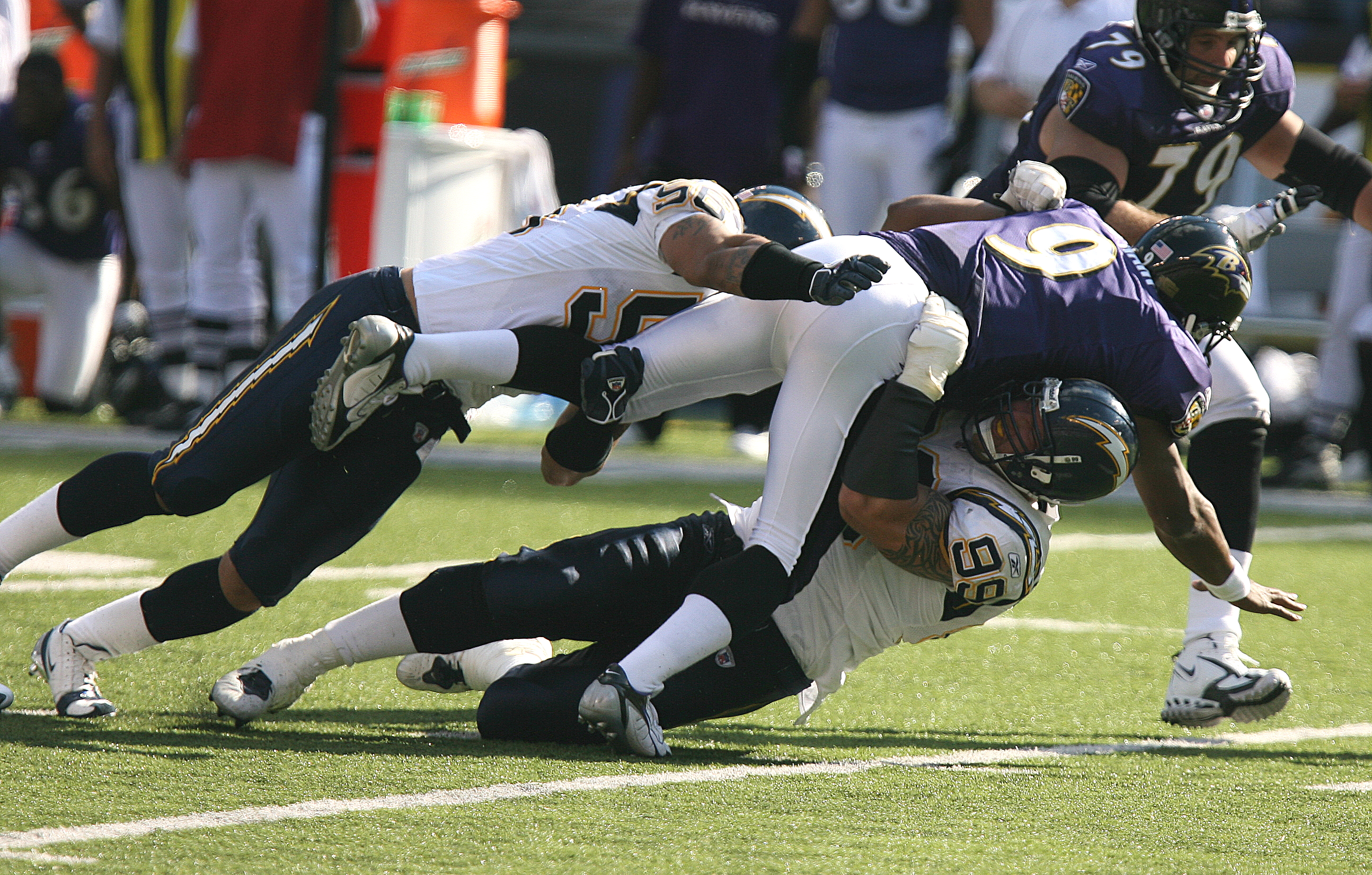 Steve McNair seen in the #9 purple jersey.